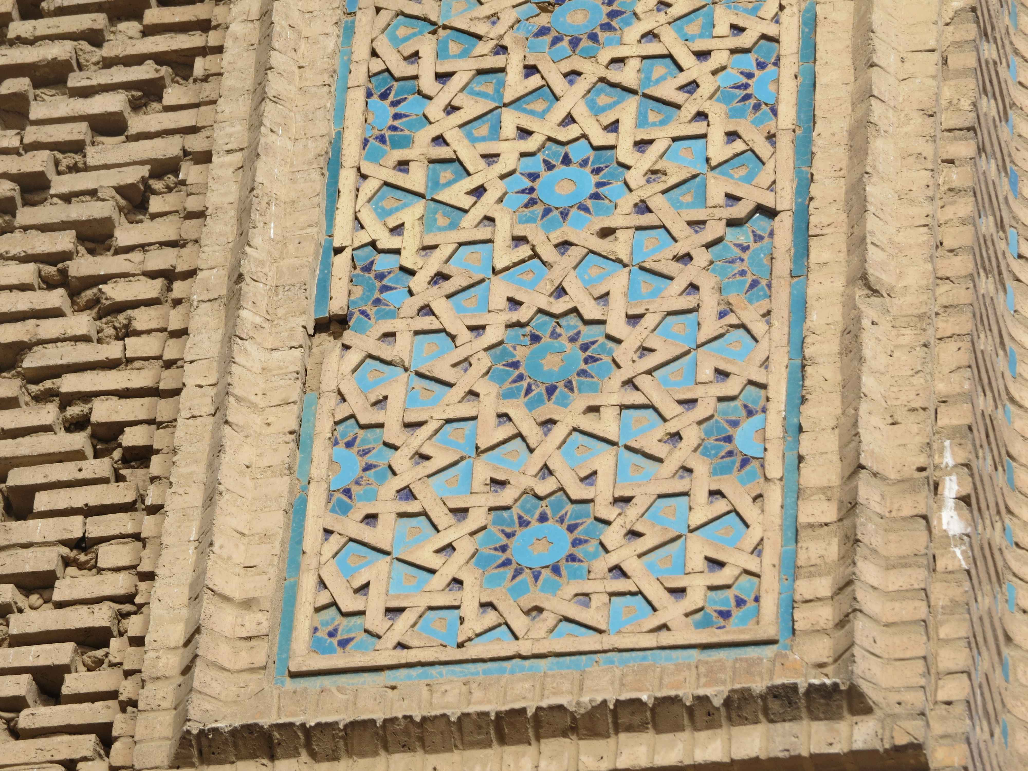 Decorations of the walls and arches of the Varamin Grand mosque.